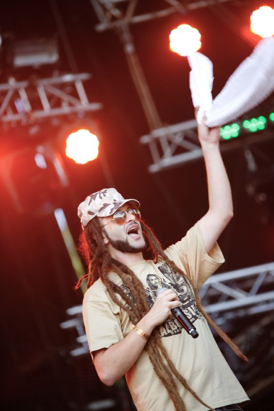 Alborosie, an italian reggae singer